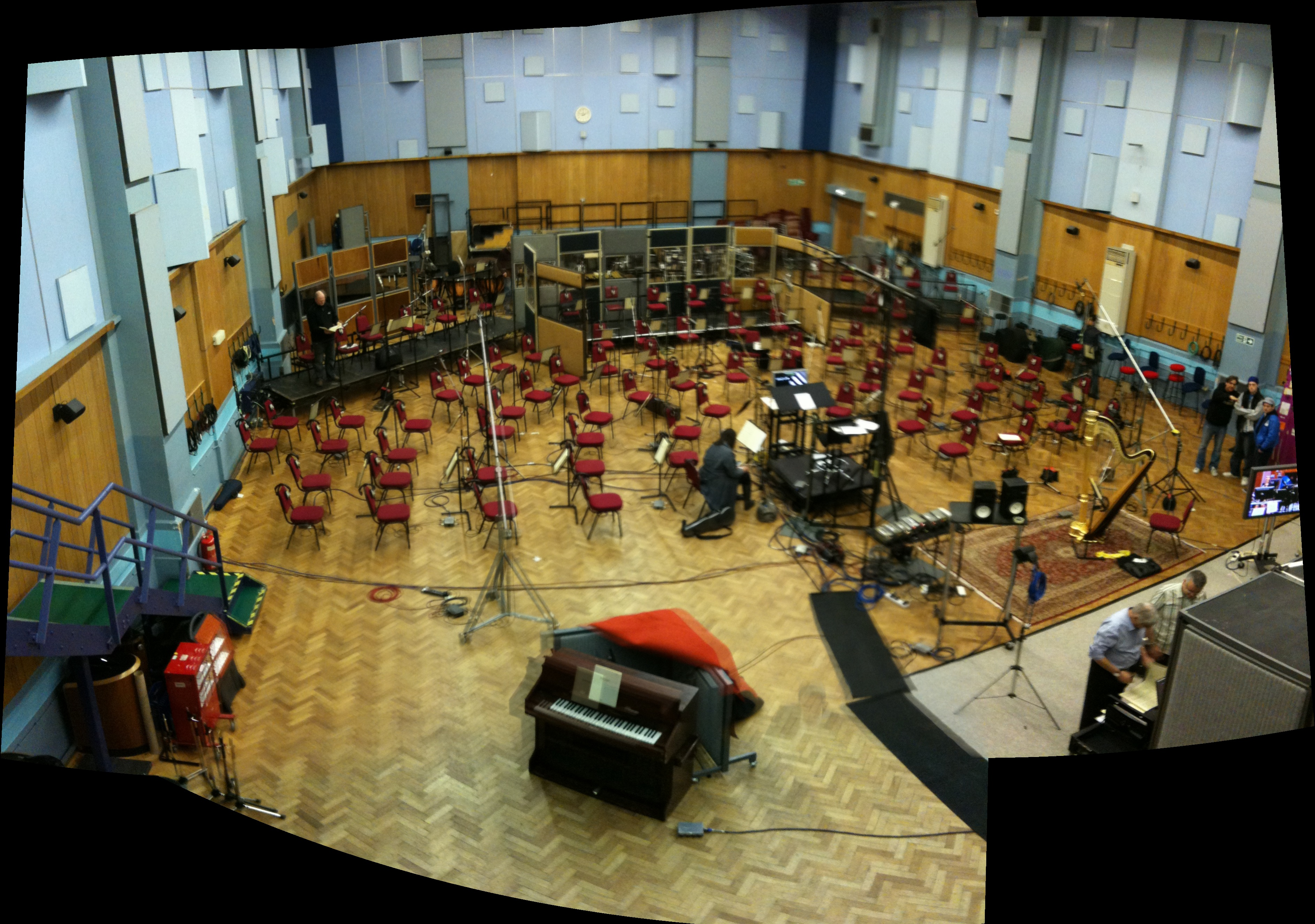 Abbey Road Studios 2010-04-08 - orchestral recording in Studio 2